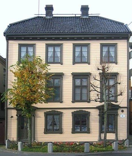 The front facade of the house